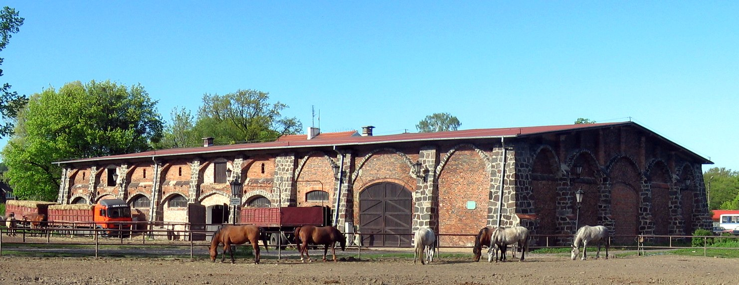 Stable, part of XIV palace and park in Gdynia Kolibki